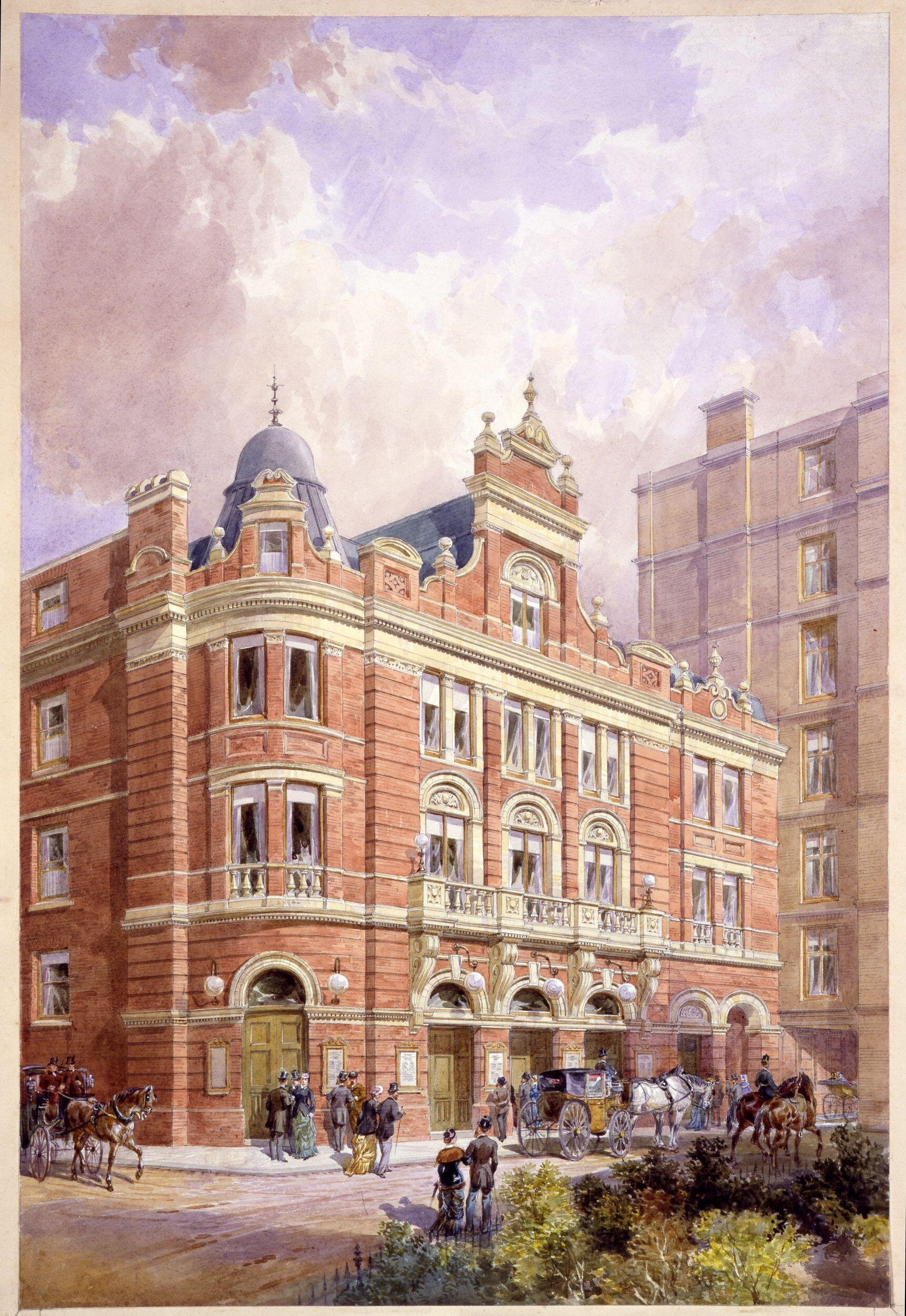 The original facade of the Savioy Theatre, facing the Embankment, London, England.